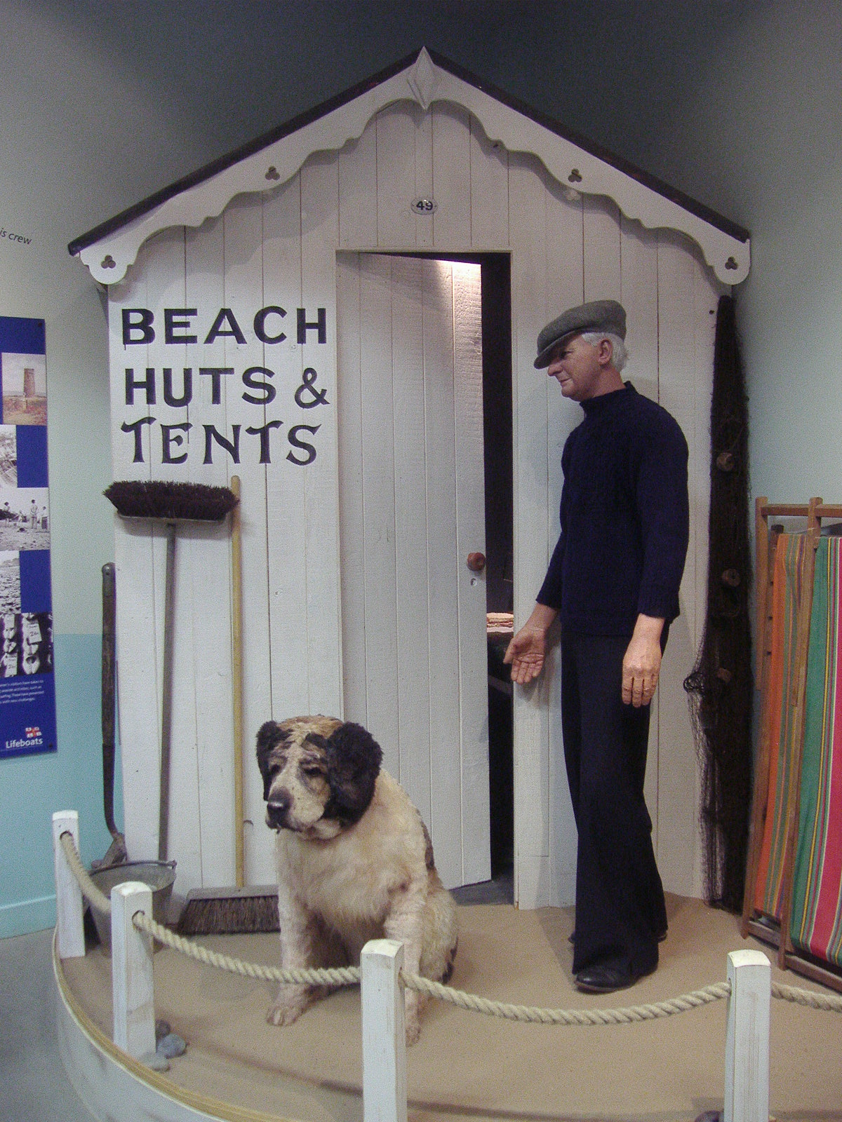 A photograph of full size model of Henry Blogg and his dog Monty, from Cromer Museum, taken by Stavros1 (talk) 14:51, 1 February 2008 (UTC) 1 February 2008